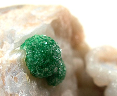 Variscite Locality: Itumbiara, Goias, Brazil Size: small cabinet, 7.6 x 6.7 x 5.2 cm Variscite Spherical clusters of CRYSTALLIZED apple green variscite are perched on a vug of botryoidal, chalcedony. The largest of the lustrous phosphate balls measures .75 cm across. Extremely good quality for the find of a few years back now!